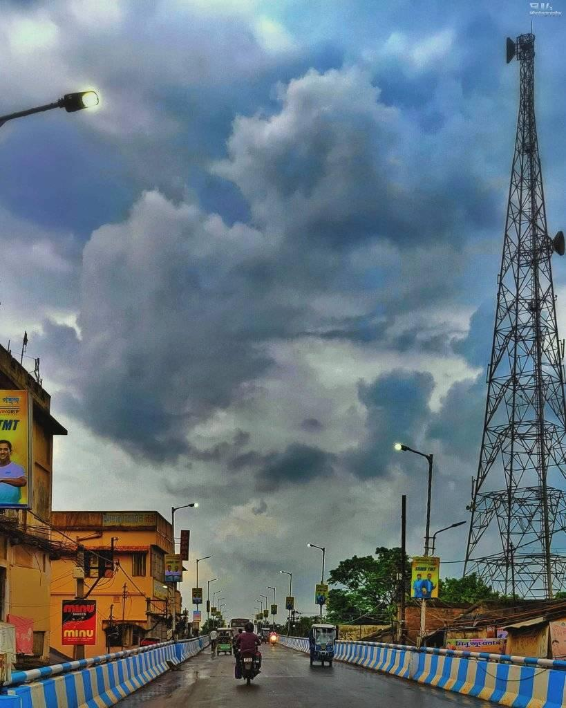 Maintained by PWD and Jhargram Municipality